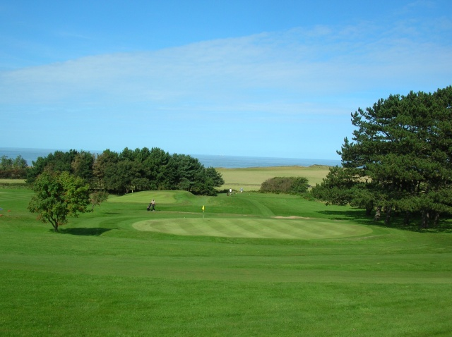 Golf course Situated at West Runton, this part is closest to East Runton.